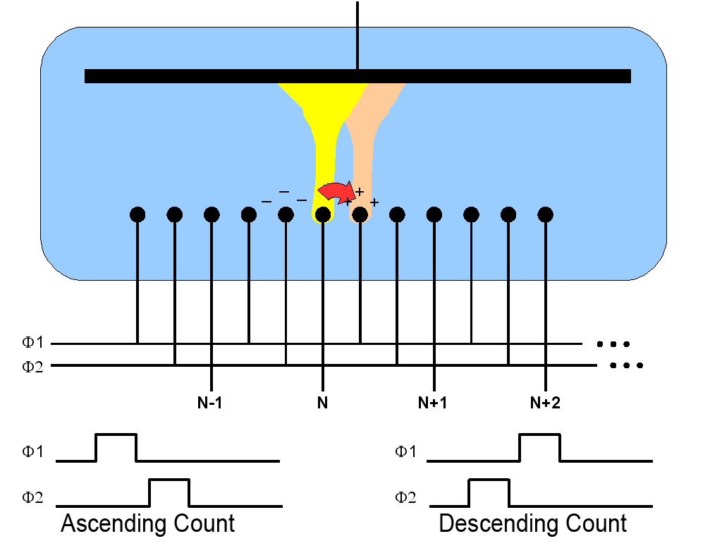 Translated image text to English.